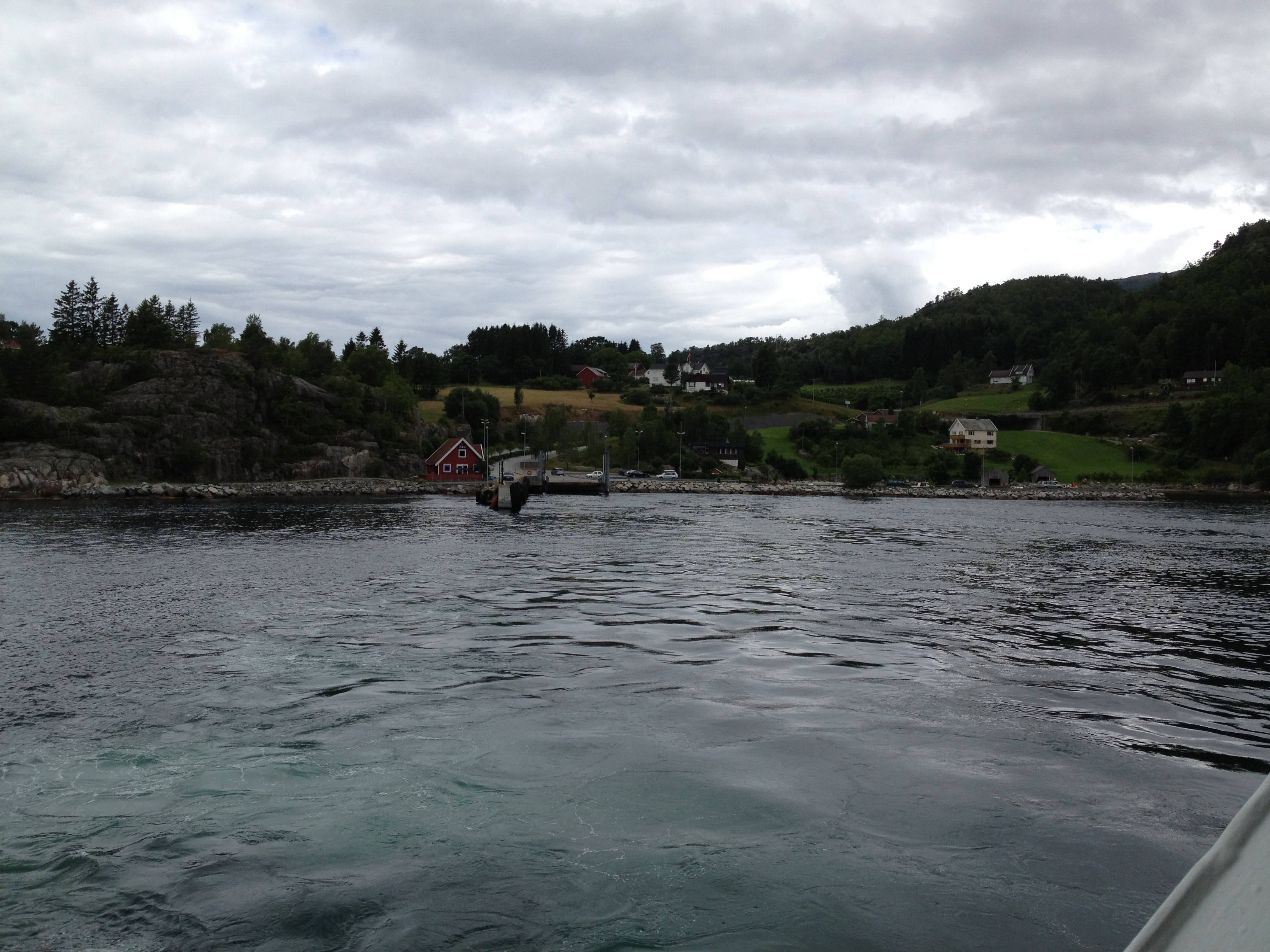 Nesvik in Hjelmeland municipality, Norway